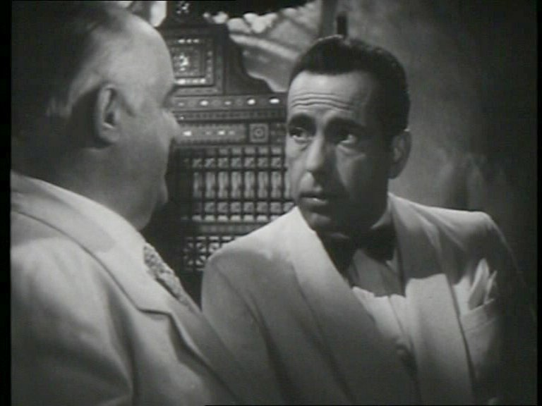 This screenshot shows Humphrey Bogart in a conversation with Sydney Greenstreet.